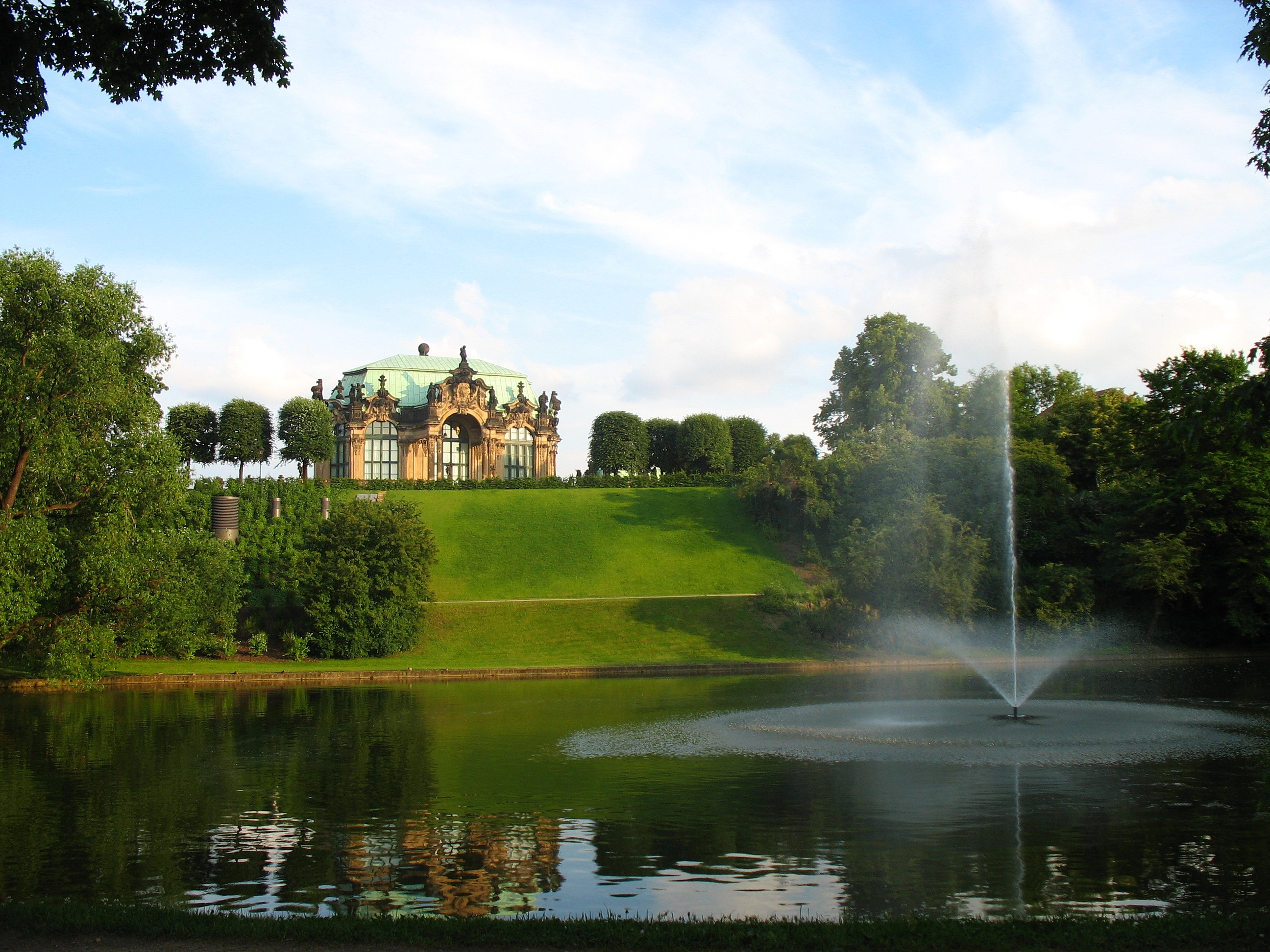 In the gardens behind the Zwinger palace, Dresden, Germany